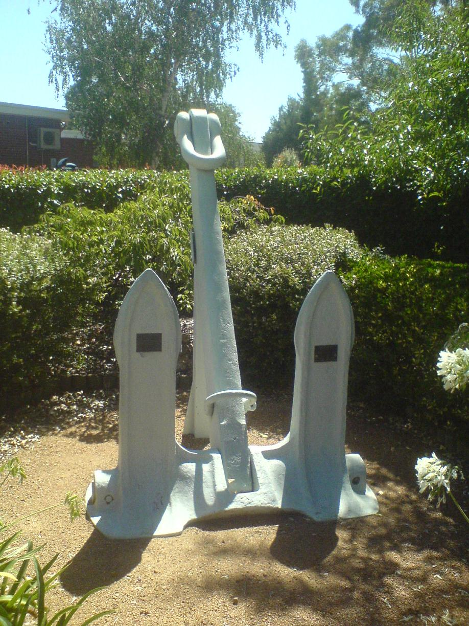 Anchor of HMAS Barcoo (K375). Location=Moreshead Home (veteran's retirement home), Lyneham, Australian Capital Territory The anchor was placed at the Morshead War Veterans Home), Lyneham, Australian Capital Territory by the ACT Section of the Naval Association of Australia. The anchor had been refurbished at the Ship's Husbandry section of the Royal Australian Navy's Fleet Intermediate Maintenance Activity (FIMA), Sydney, New South Wales.